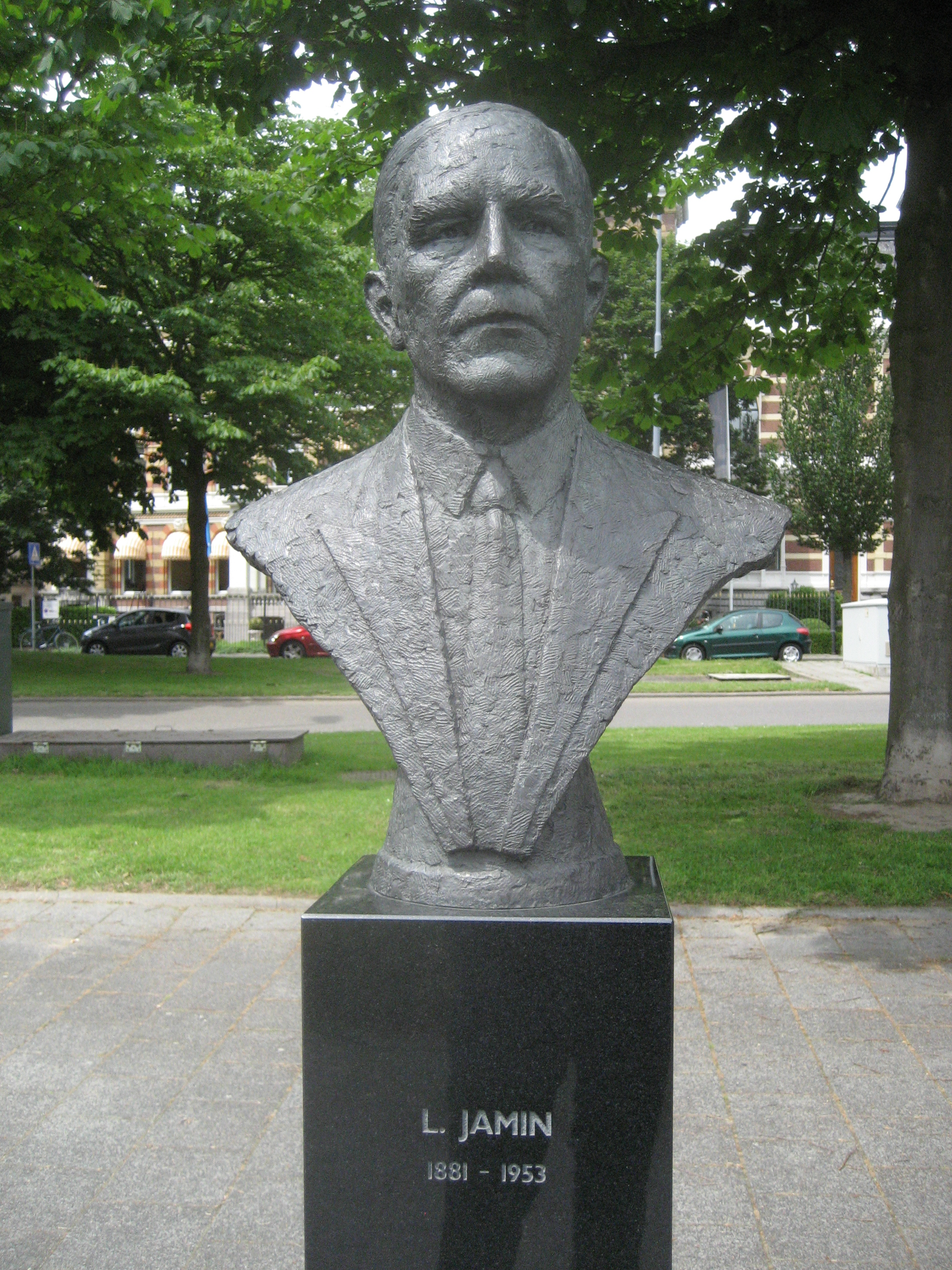 Bust of Louis Jamin (1881-1953) at Westplein, Rotterdam. Sculptor: Robbert Donker (2013)